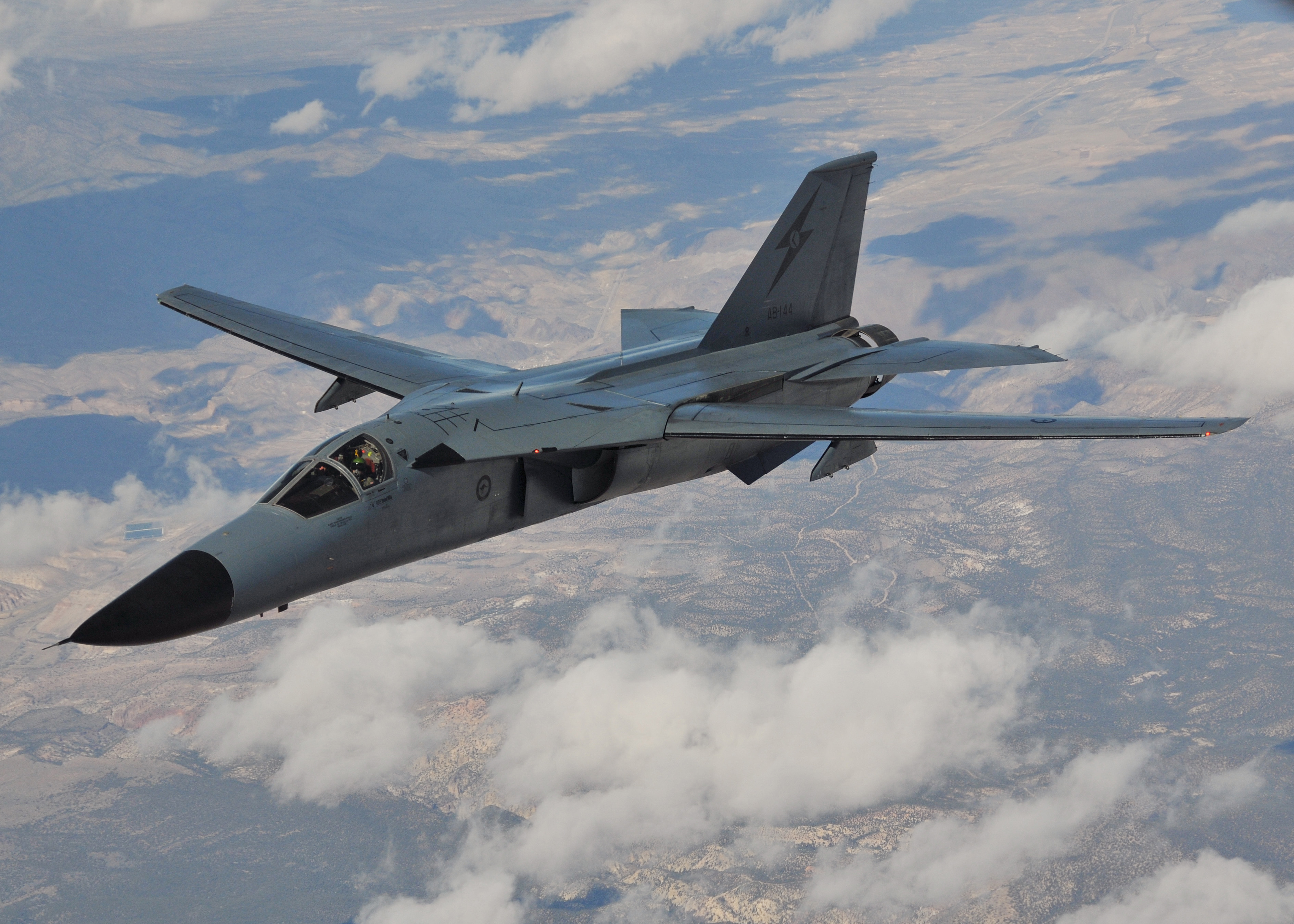 A Royal Australian Air Force F-111C flies over the Nevada Test and Training Range during a Red Flag 09-03 mission March 4. The F-111Cs and their crews provided long-range strike capabilities for the exercise's "Blue" forces. This will be the last Red Flag appearance for the Australian F-111s as the type is being retired in 2010. Red Flag provides realistic combat training for U.S., allied and coalition air forces.